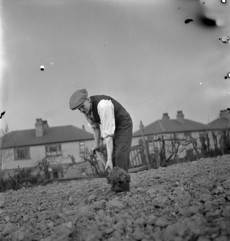 Man of the Mine- Life at the Coal Face, Britain, 1942 Coal miner Fred Woolhouse digs over the land near his home that he has rented from a farmer. Once the ground is prepared, Fred will be adding his contribution to the 'Dig for Victory' campaign in his spare time.